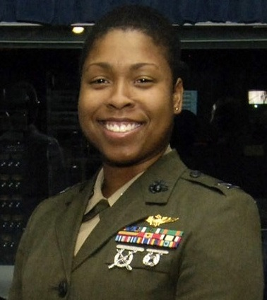 Cropped image of United States Marine Corps officer Vernice Armour - first female African-American naval aviator and combat pilot in the United States military